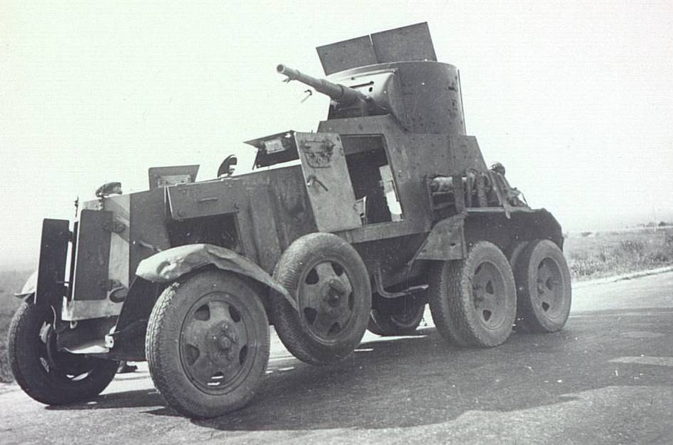 Armored car BA-6 supplied by the Soviets to the Spanish Republican Army